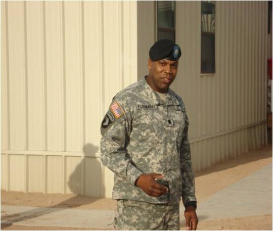 Flemming Battalion Command Circa 2011